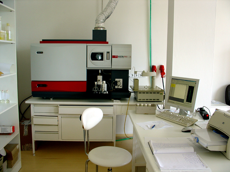 View of an inductively coupled plasma optical emission spectrometer (ICP-OES), used for the detection of trace metals.